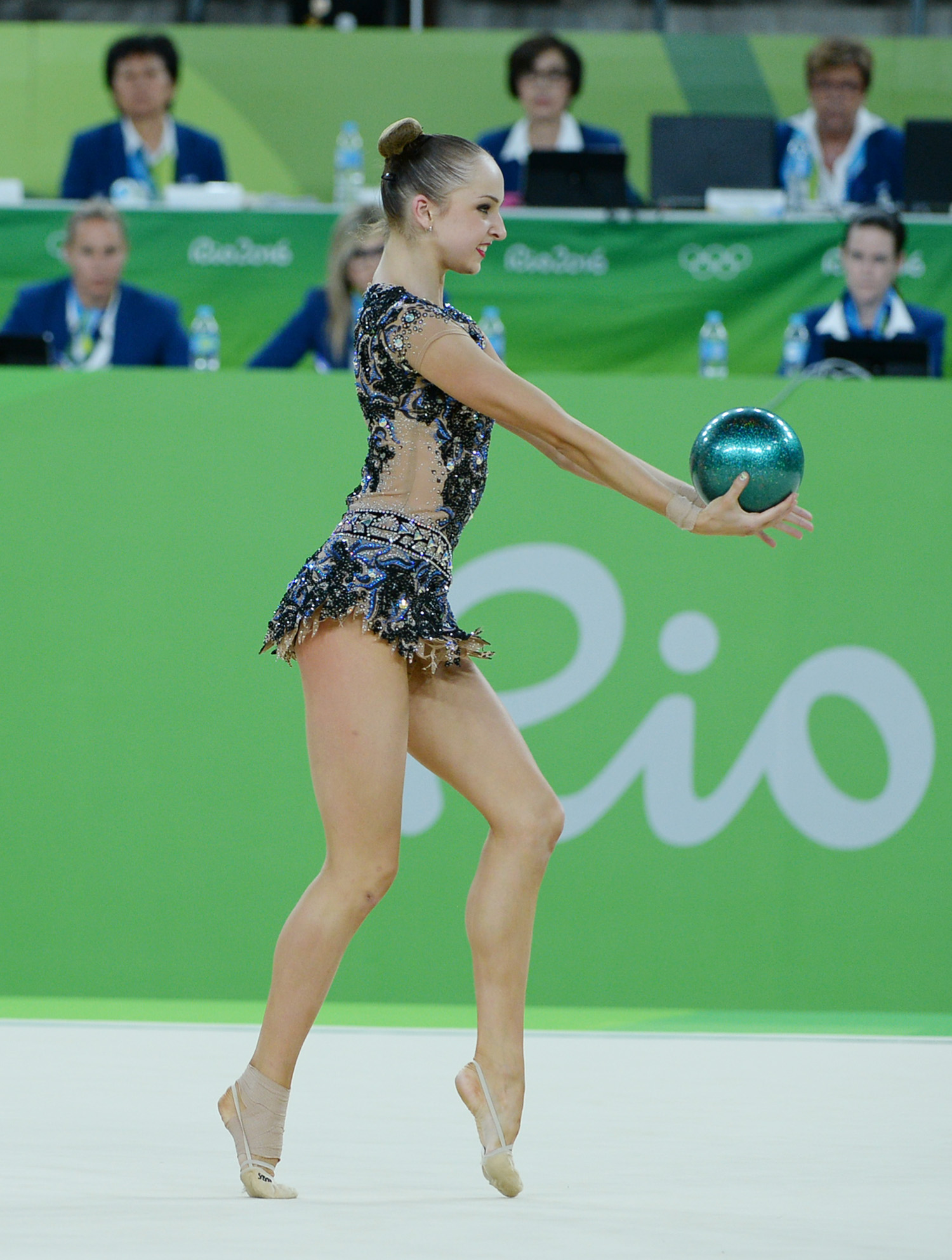 Rhythmic gymnastics at the 2016 Summer Olympics, Marina Durunda